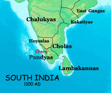 South India in AD 1100, created from Thomas Lessman's free domain material